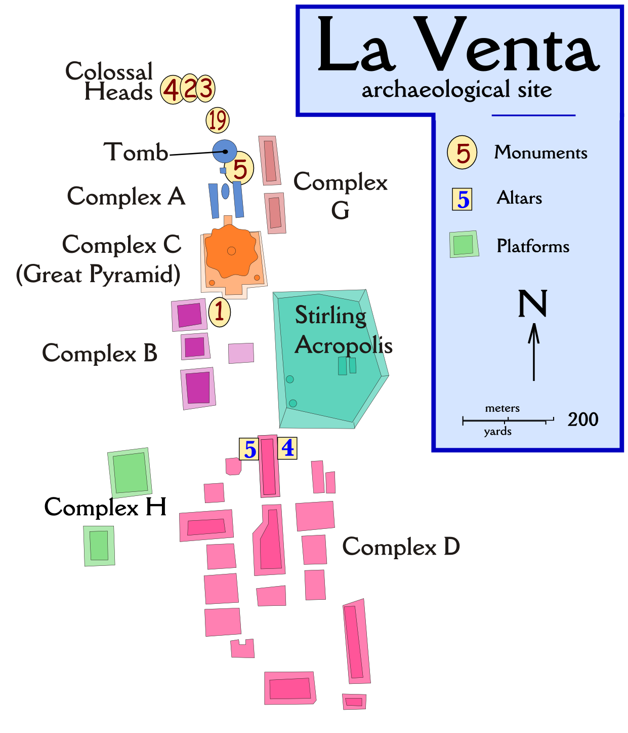 The site plan for La Venta, an Olmec archeological site — near Villahermosa, in Tabasco state, southeastern México. Credits Created by User:MapMaster using the map Image:Plano La Venta.svg by the wonderful User:Yavidaxiu. The "source code" for this image can be found at Image:La Venta Site Plan.svg, but apparently the SVG interpreter here in Wikipedia can not handle the fonts I've used and has inserted other weird-osity, so I'm uploading it as a PNG file.